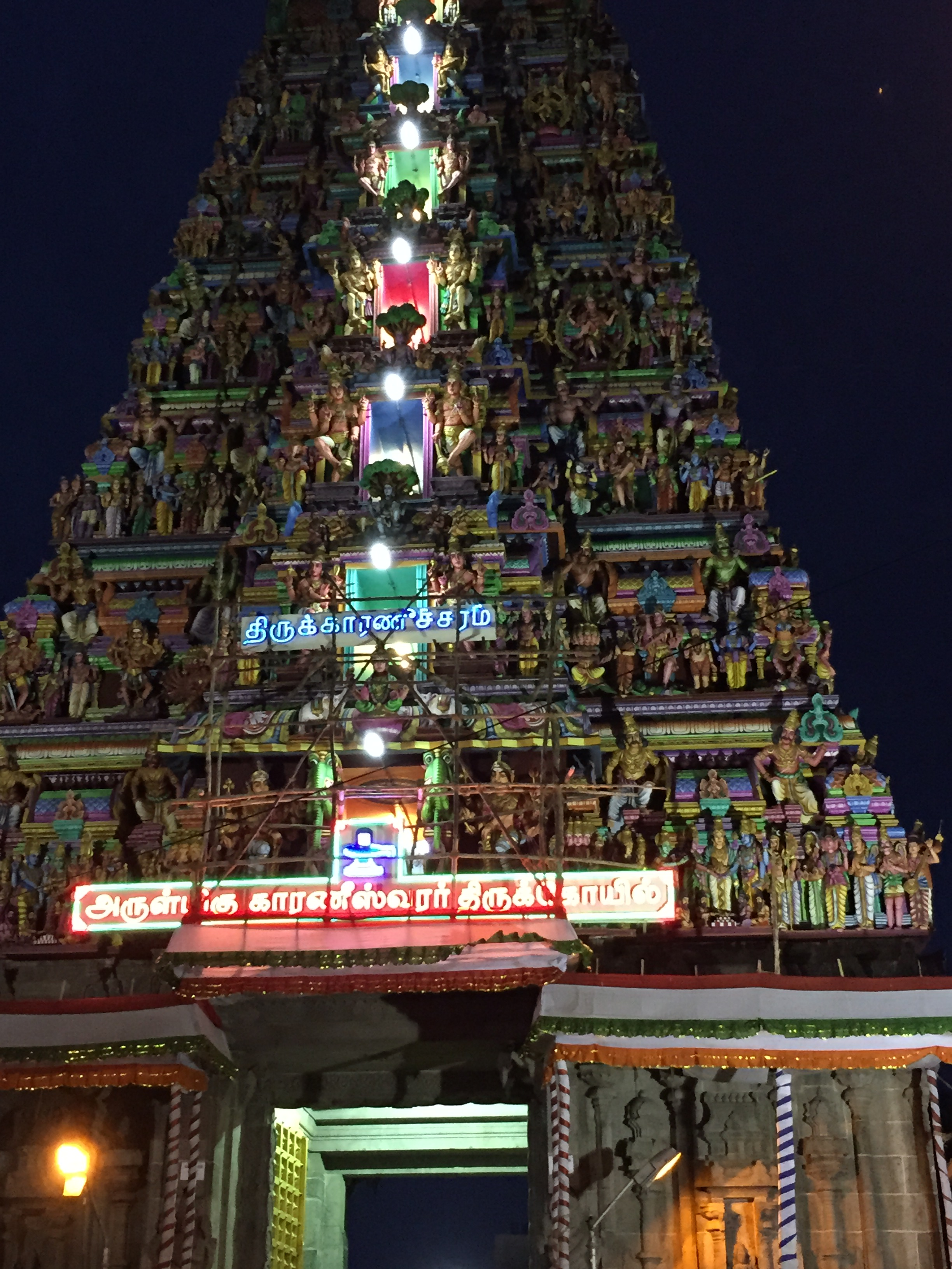 An ancient temple of Siva, Karaneswarar, situated in Saidapet,Chennai